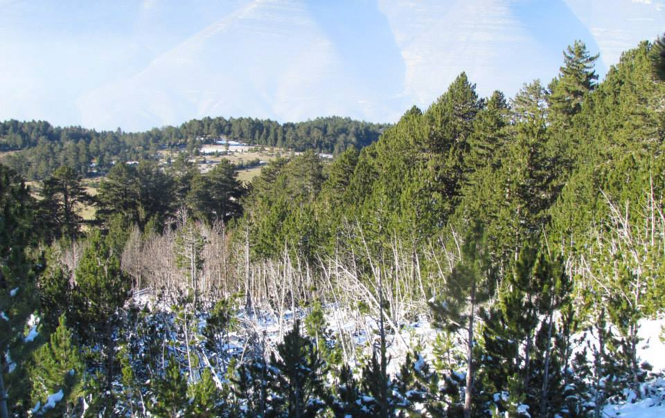 Bjeshka e Koretnikut